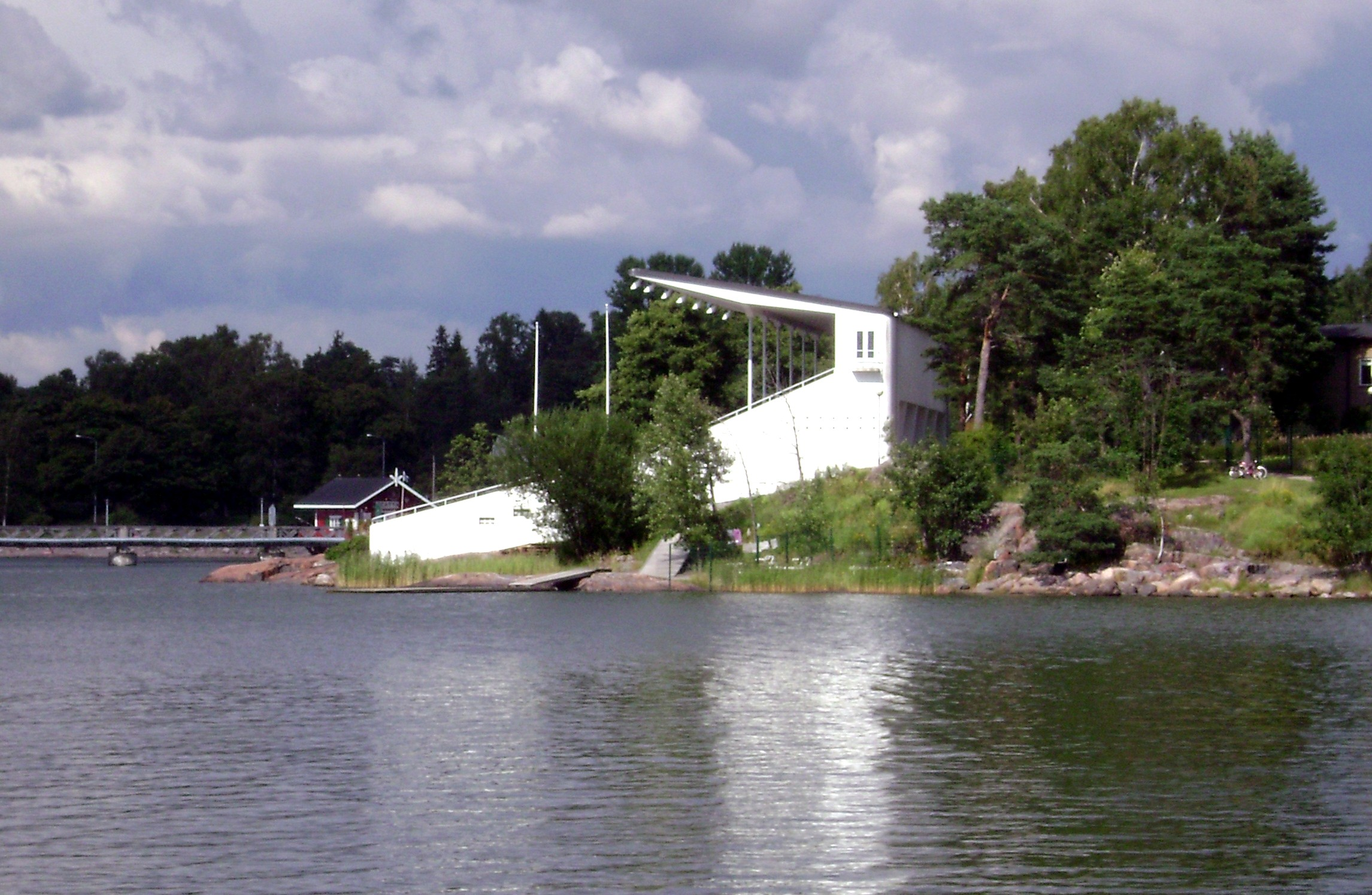 Helsinki rowing stadium in Töölö district.